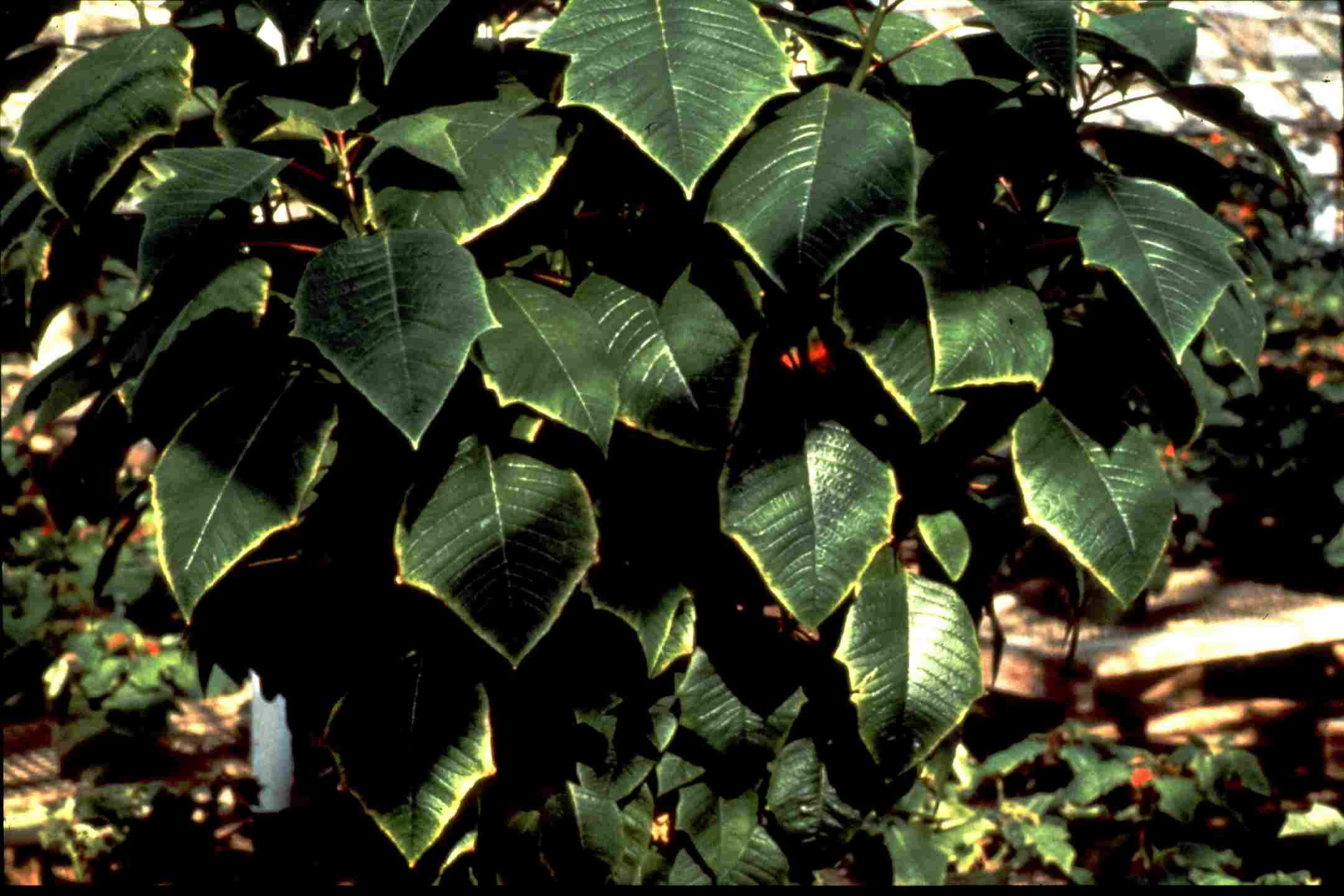 Classic molybdenum deficiency in poinsettia is shown as a thin, leaf margin chlorosis